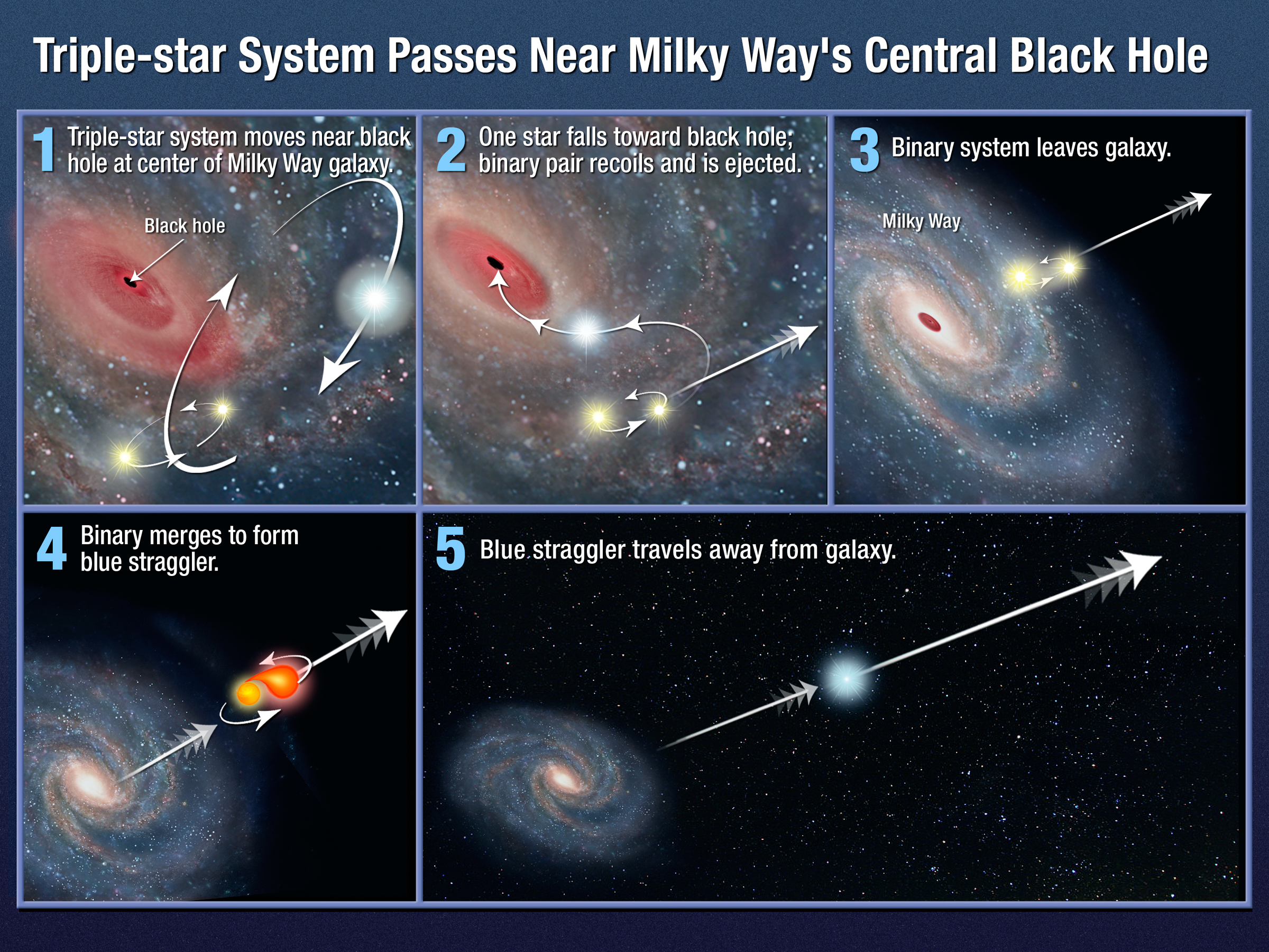 This illustration shows one possible mechanism for how the star HE 0437-5439 acquired enough energy to be ejected from our Milky Way galaxy.